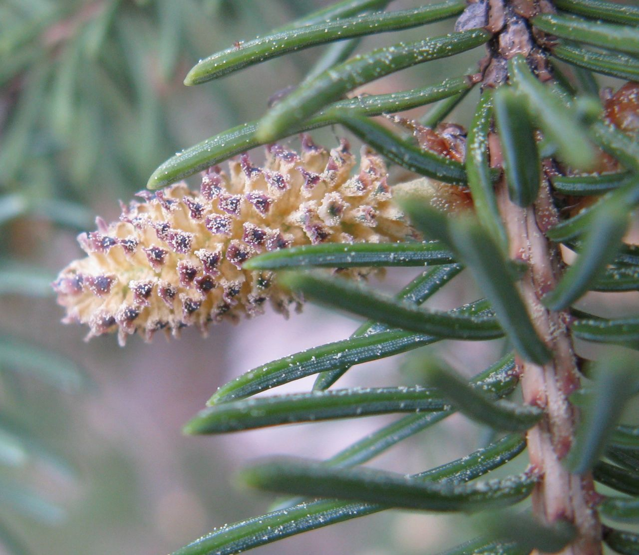 male cone, cultivated tree